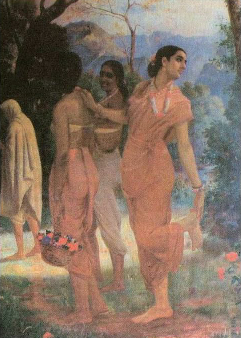 Shakuntala looking back to glimpse Dushyanta by acting as injured by a thorn